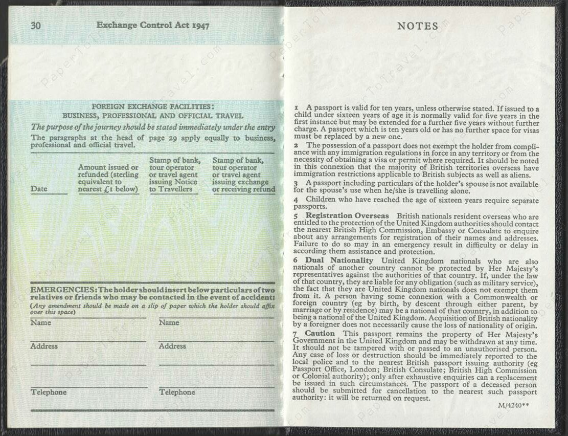 British Passport 1978, Foreign Exchange Facilities, Business, Professional and Official Travel page with 'Exchange Control Act 1947' notation